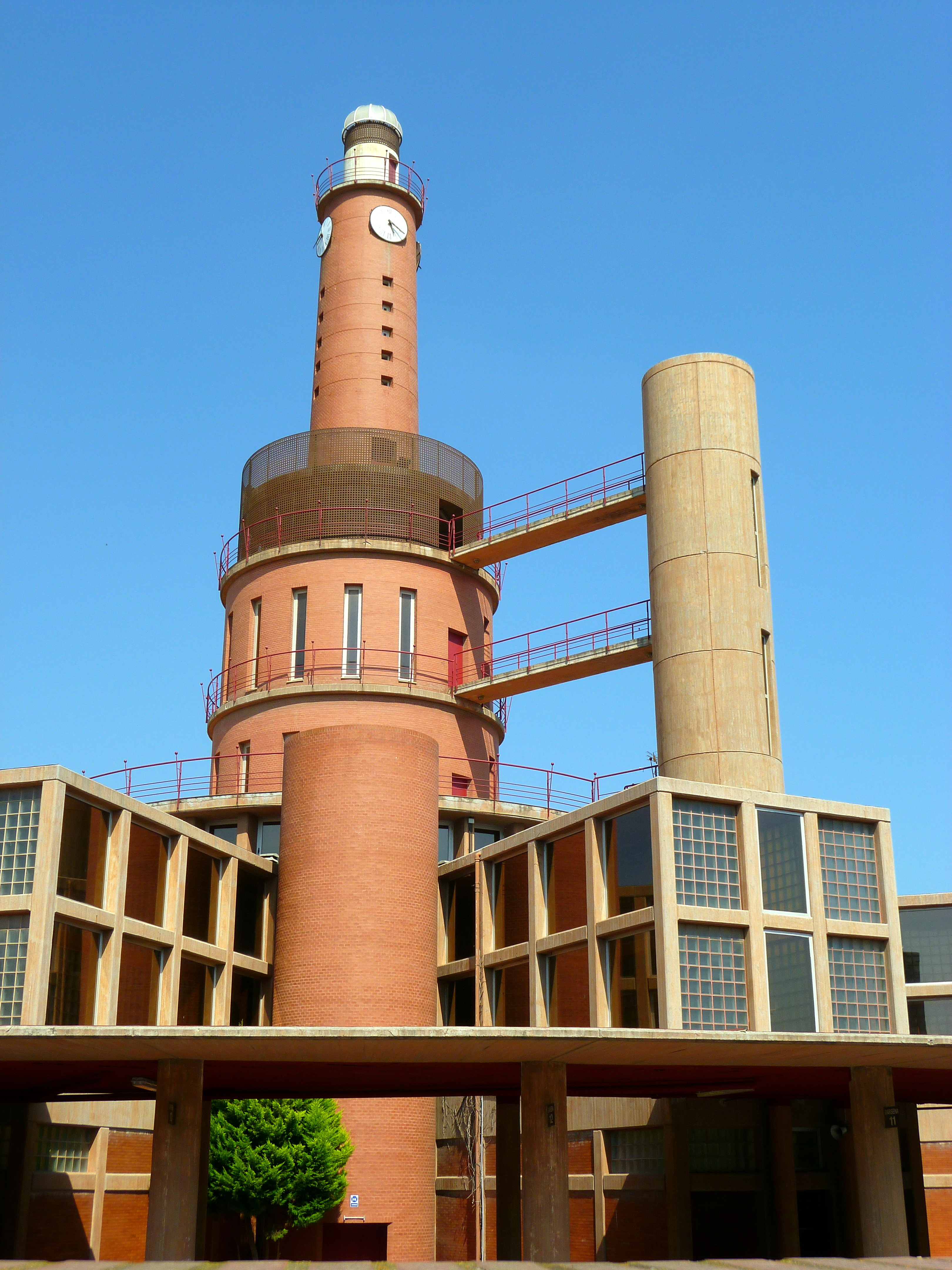 A very art deco inspired bus station in Cartagena in the Murcia region of Spain.